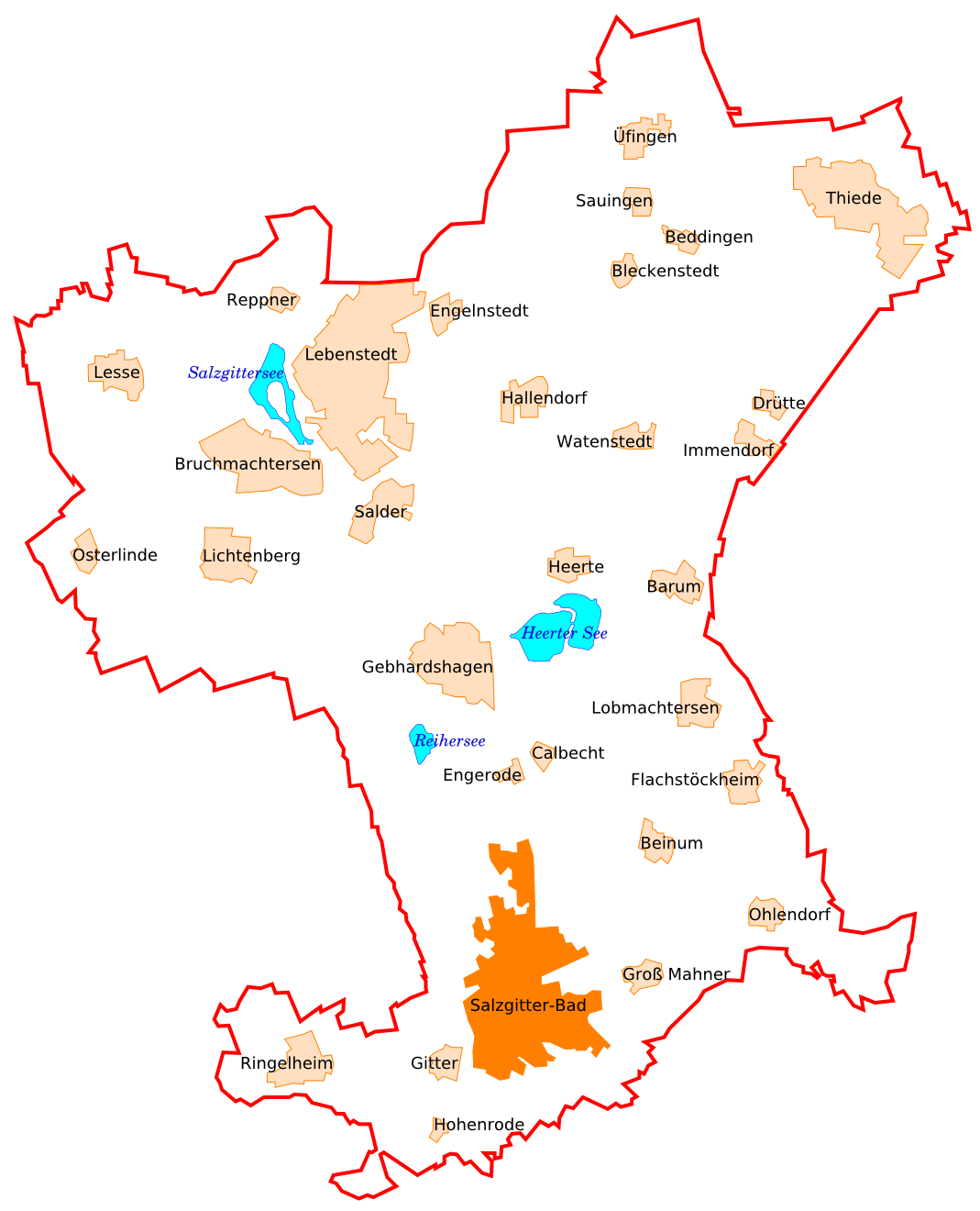 Map of Salzgitter showing the subdivision Salzgitter-Bad